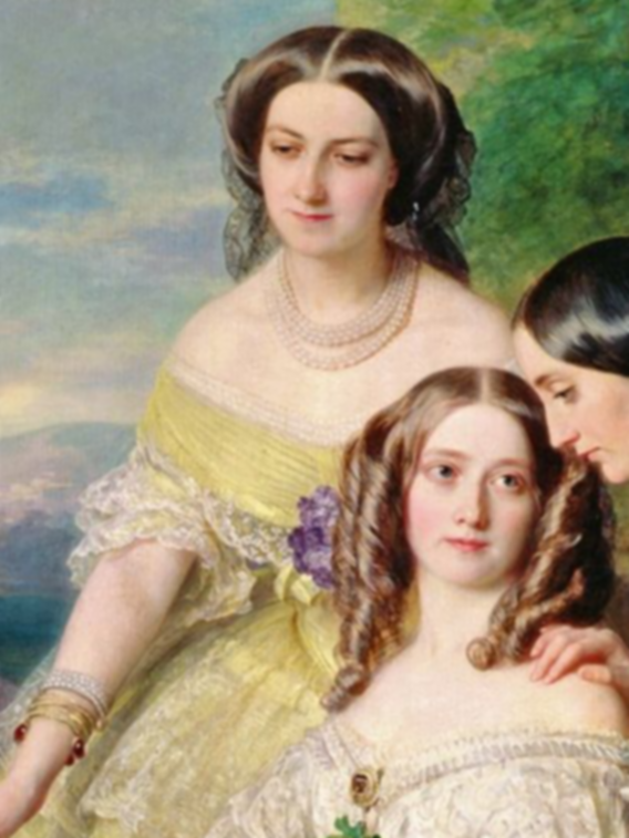 Detail from "The Empress Eugenie Surrounded by her Ladies in Waiting", by Franz Xaver Winterhalter.